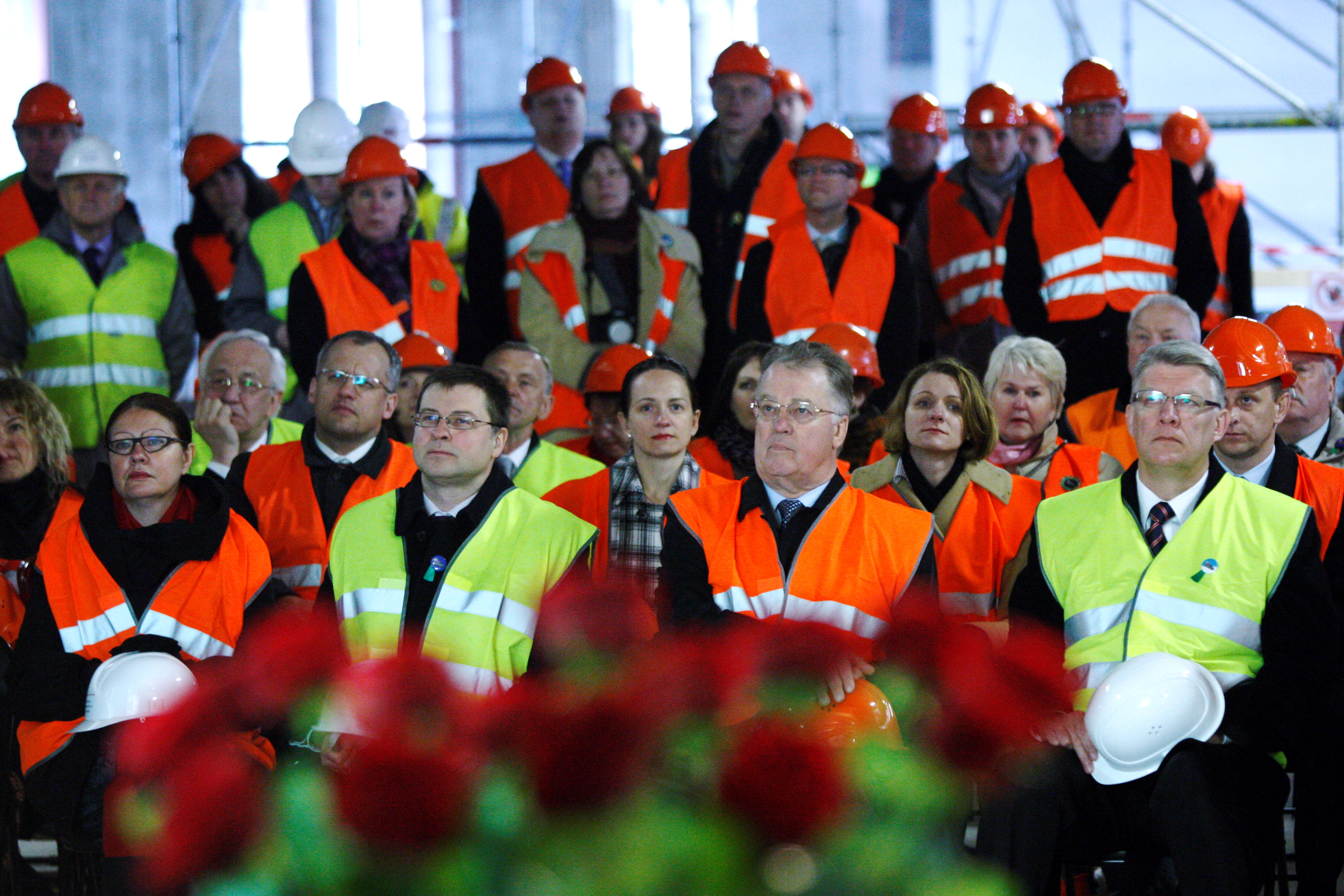 Prime Minister Valdis Dombrovskis participated in the ridgepole celebration of the National Library of Latvia. Photo: Toms Kalnins/ Chancery of the President.